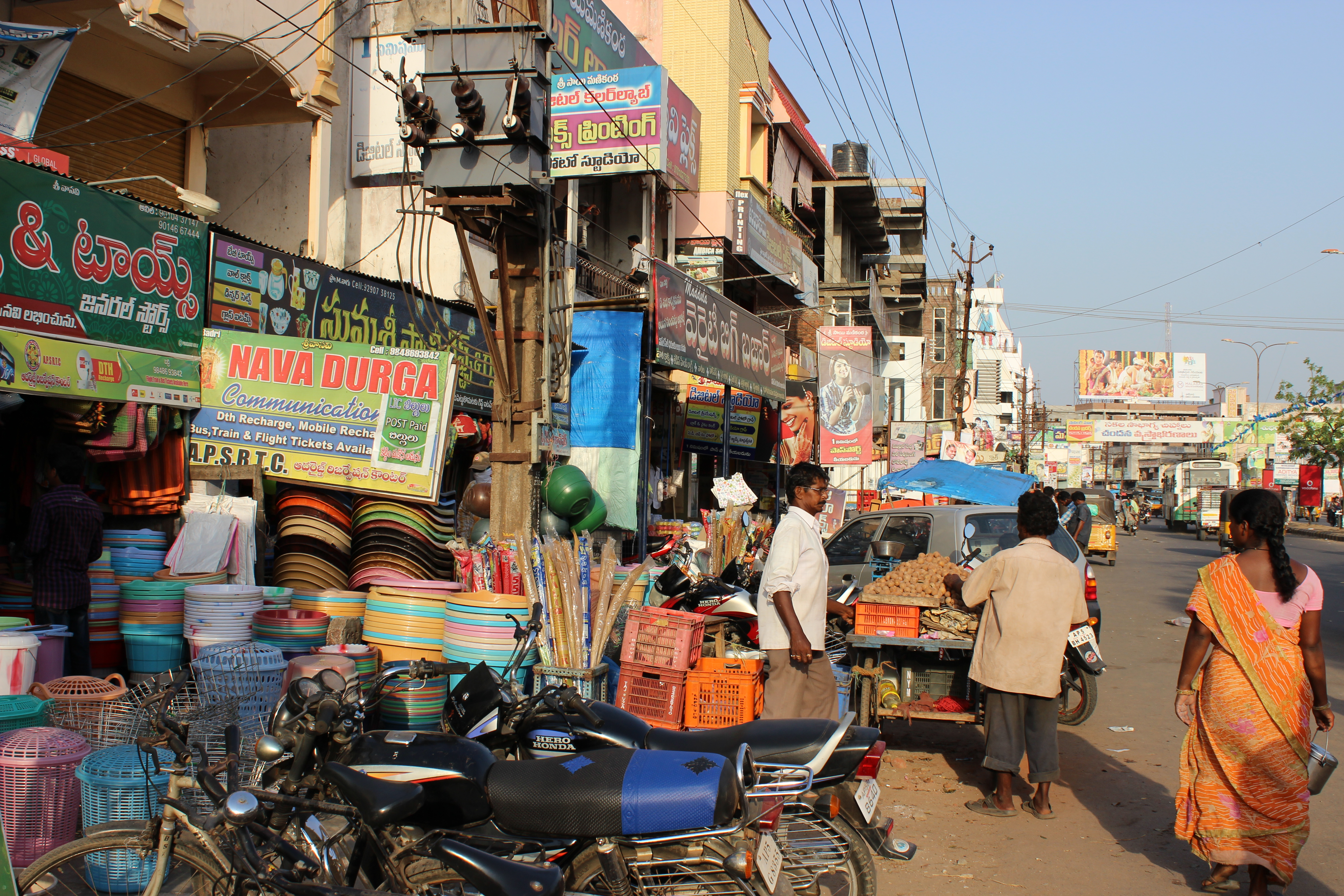 amalapuram